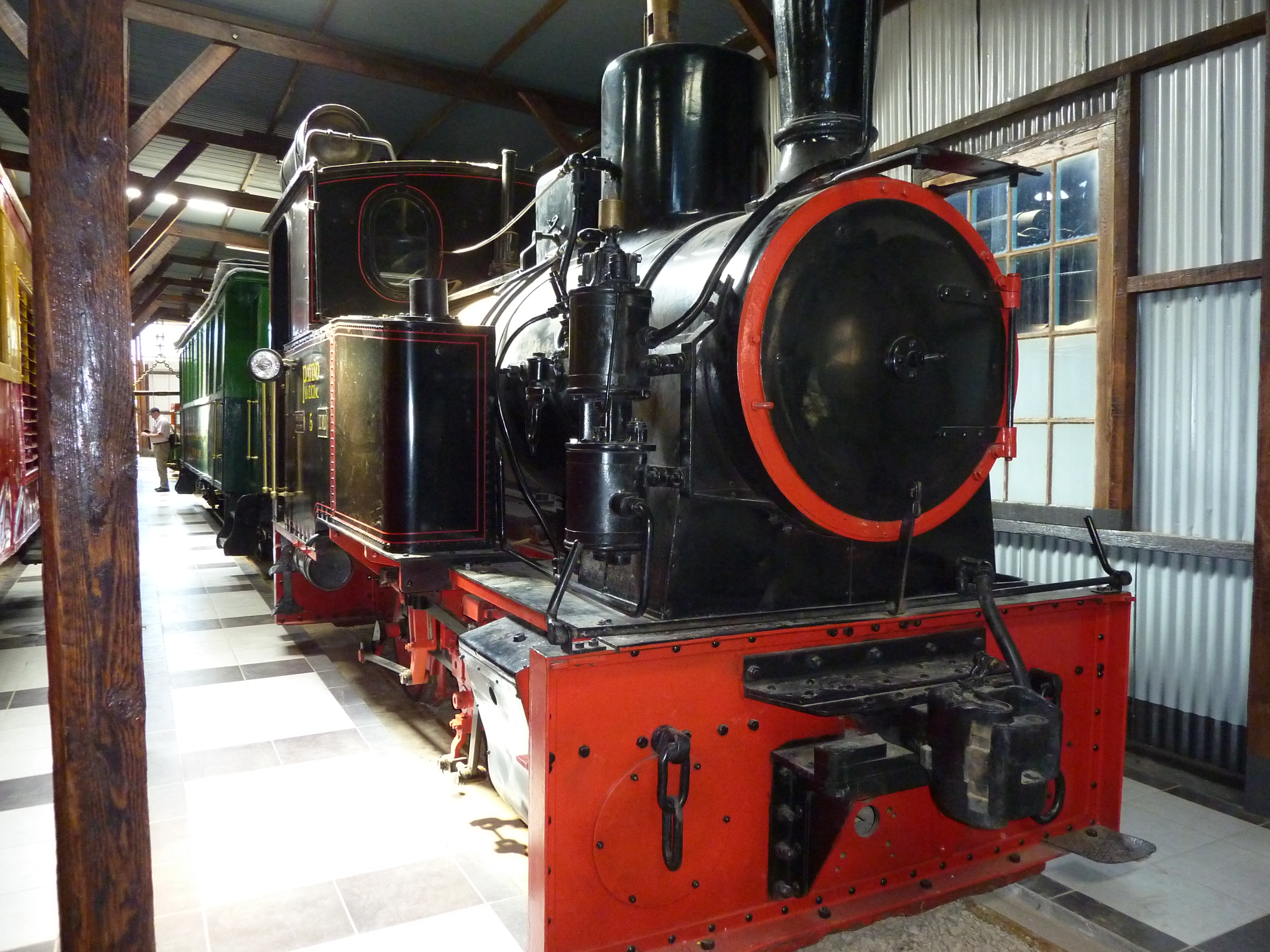 Steam-engine in Machacamarca Railway Museum in Bolivia